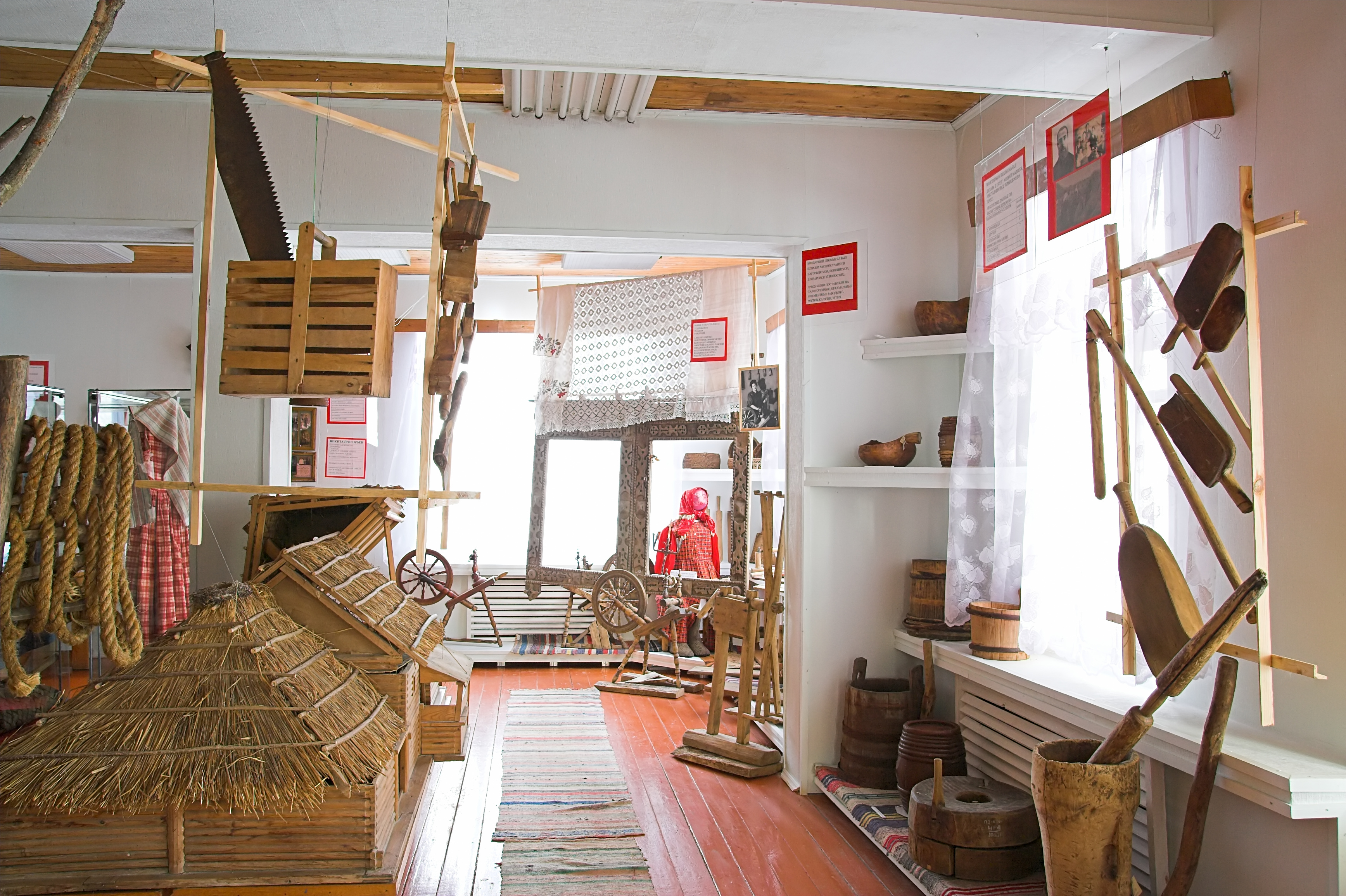 Exposition of «Ganshin Manor» museum